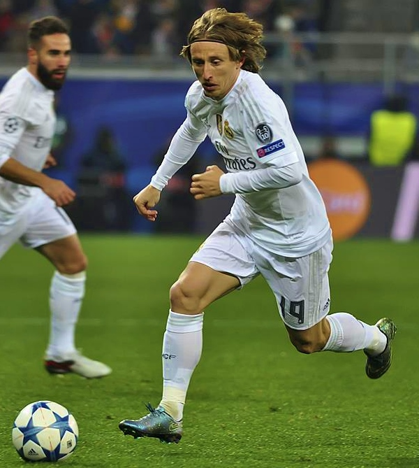 Luka Modrić